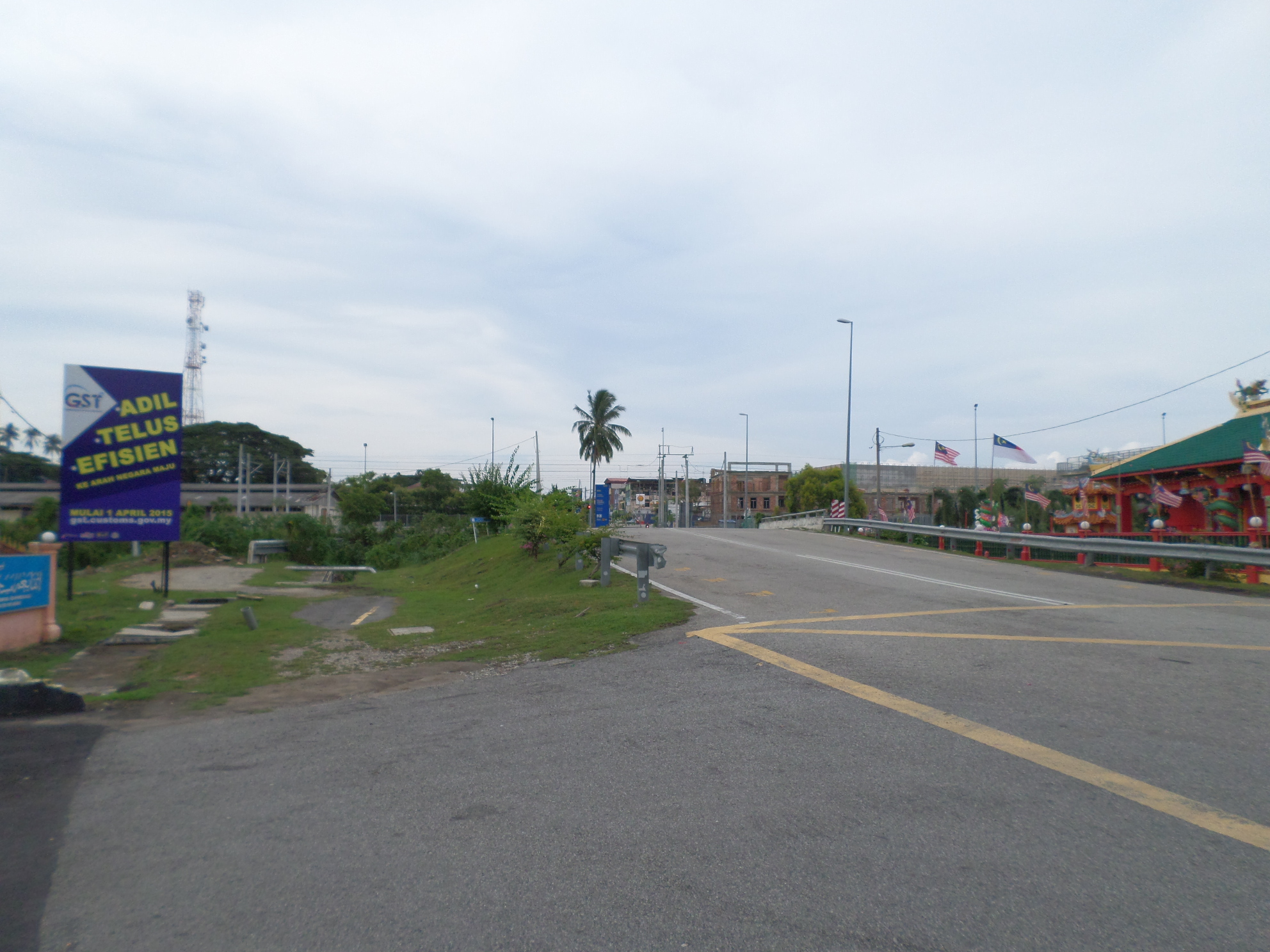 Pulau Sebang, Alor Gajah, Melaka, MalaysiaBahasa Melayu: Pulau Sebang, Alor Gajah, Melaka, Malaysia